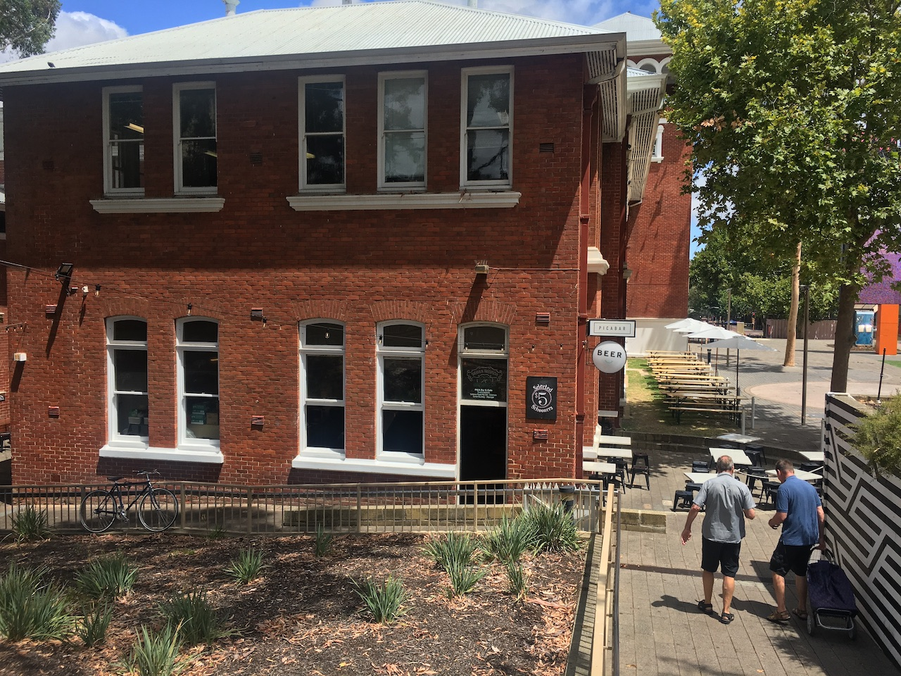 Pica Bar from East